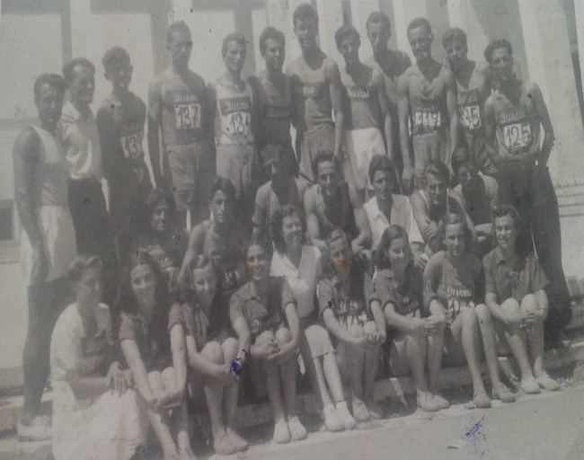 Ekipi atletikes.